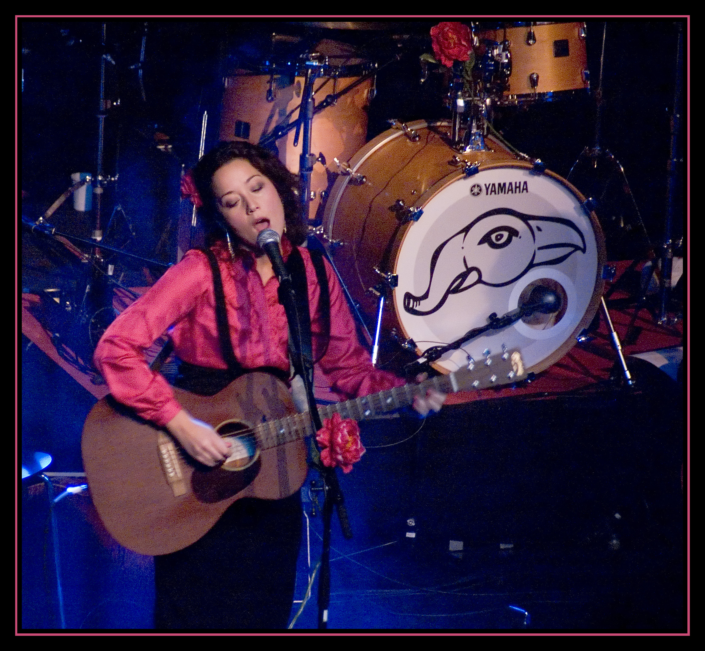 Maia Hirasawa live at Rival (Stockholm, Sweden).